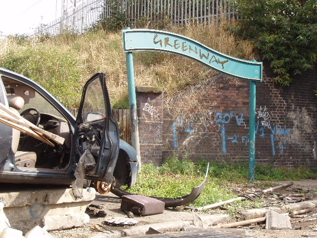 Greenway route round the 2012 Olympic site. This is the area that will be transformed when the bulldozers move in and work starts on creating a state-of-the-art Olympic Games venue in Stratford, East London